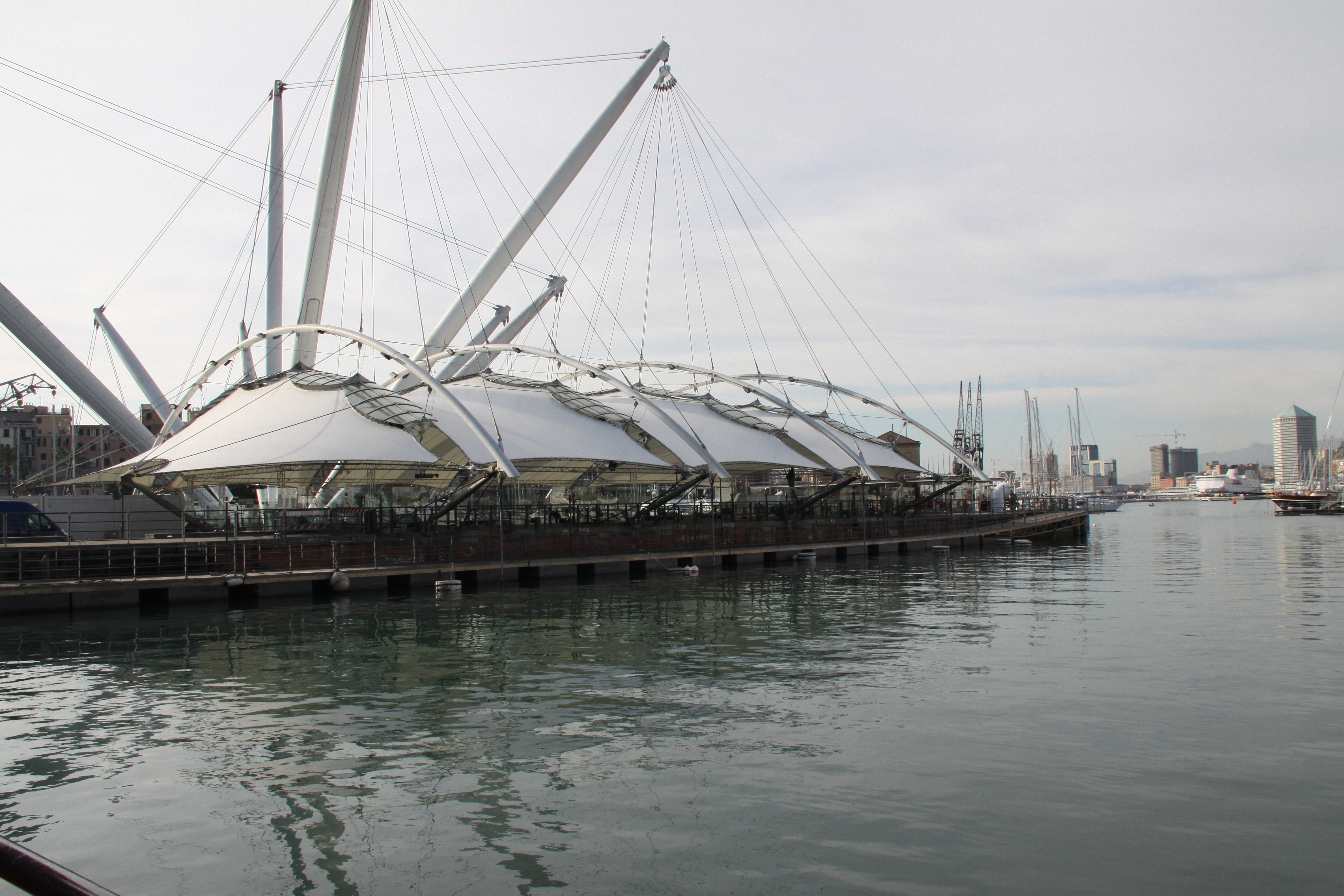 Genoa, Italy, ancient harbour, Embriaci pier